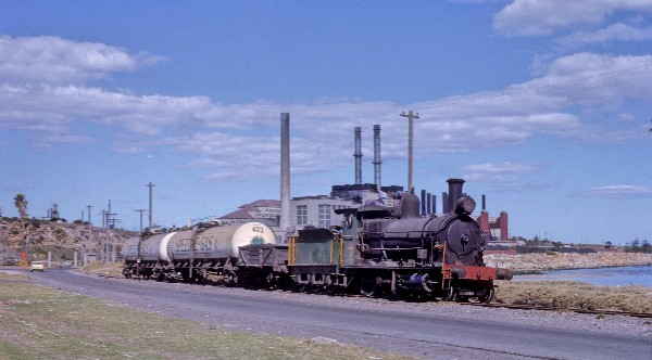 Bunerong Power House locomotive No.7, formerly NSWGR 2408